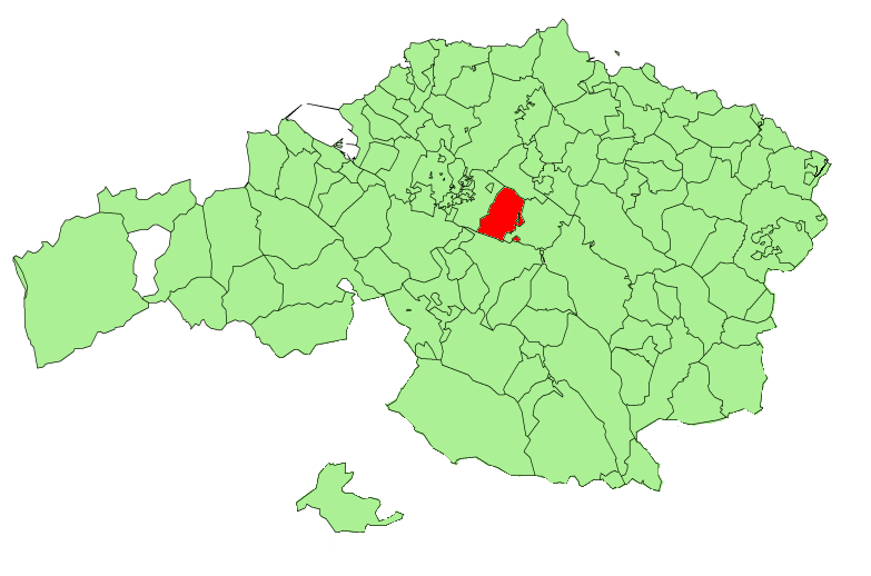 Lezama municipality in the province of Biscay